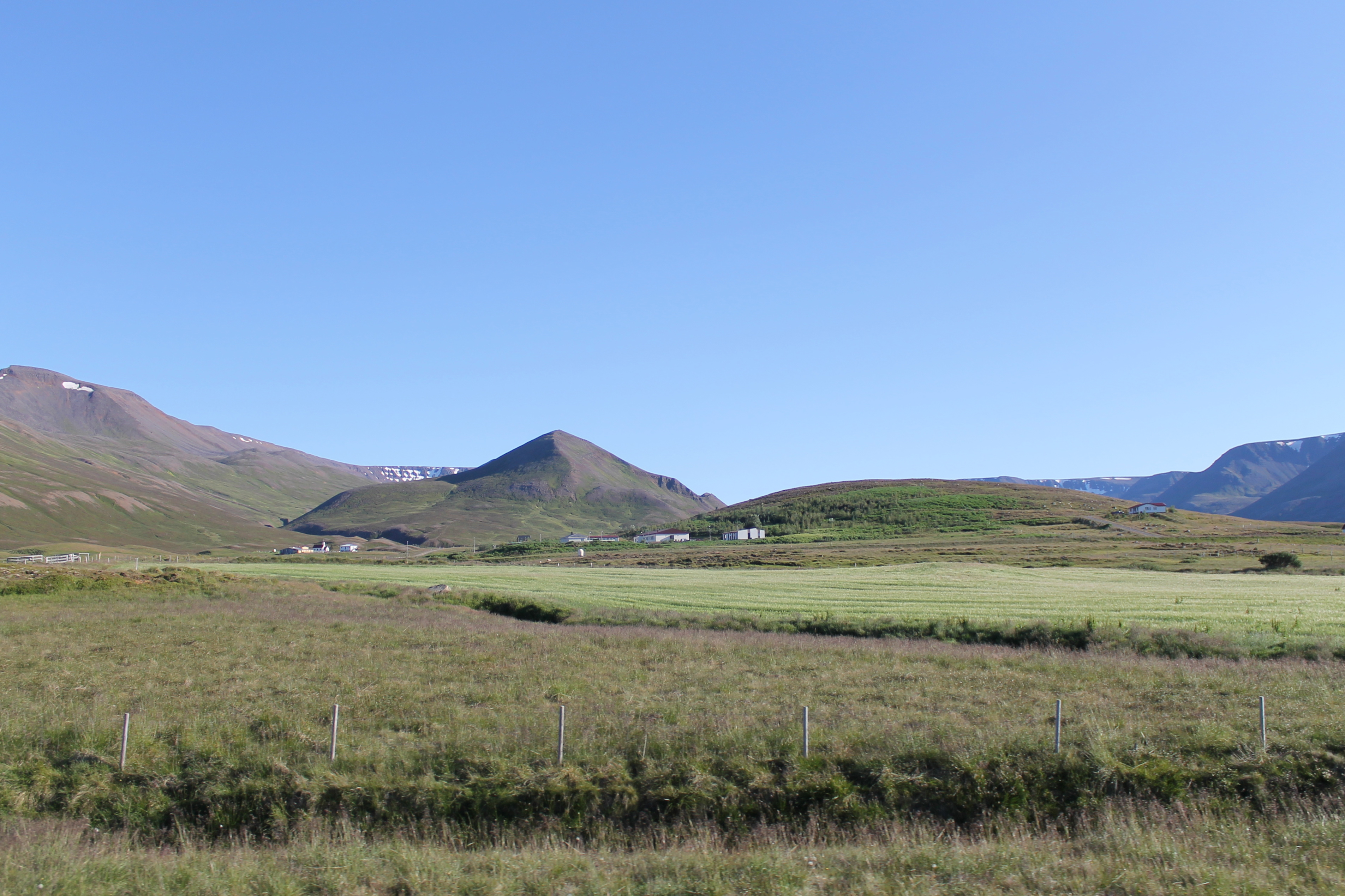 The church at Barð and Sólgarðar school, Fljót, Skagafjörður, Northern Iceland.